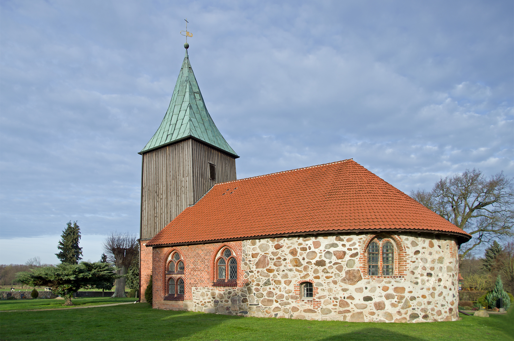 Church and cemetery (churchyard) of the small village Meuchefitz (district Lüchow-Dannenberg, northern Germany).